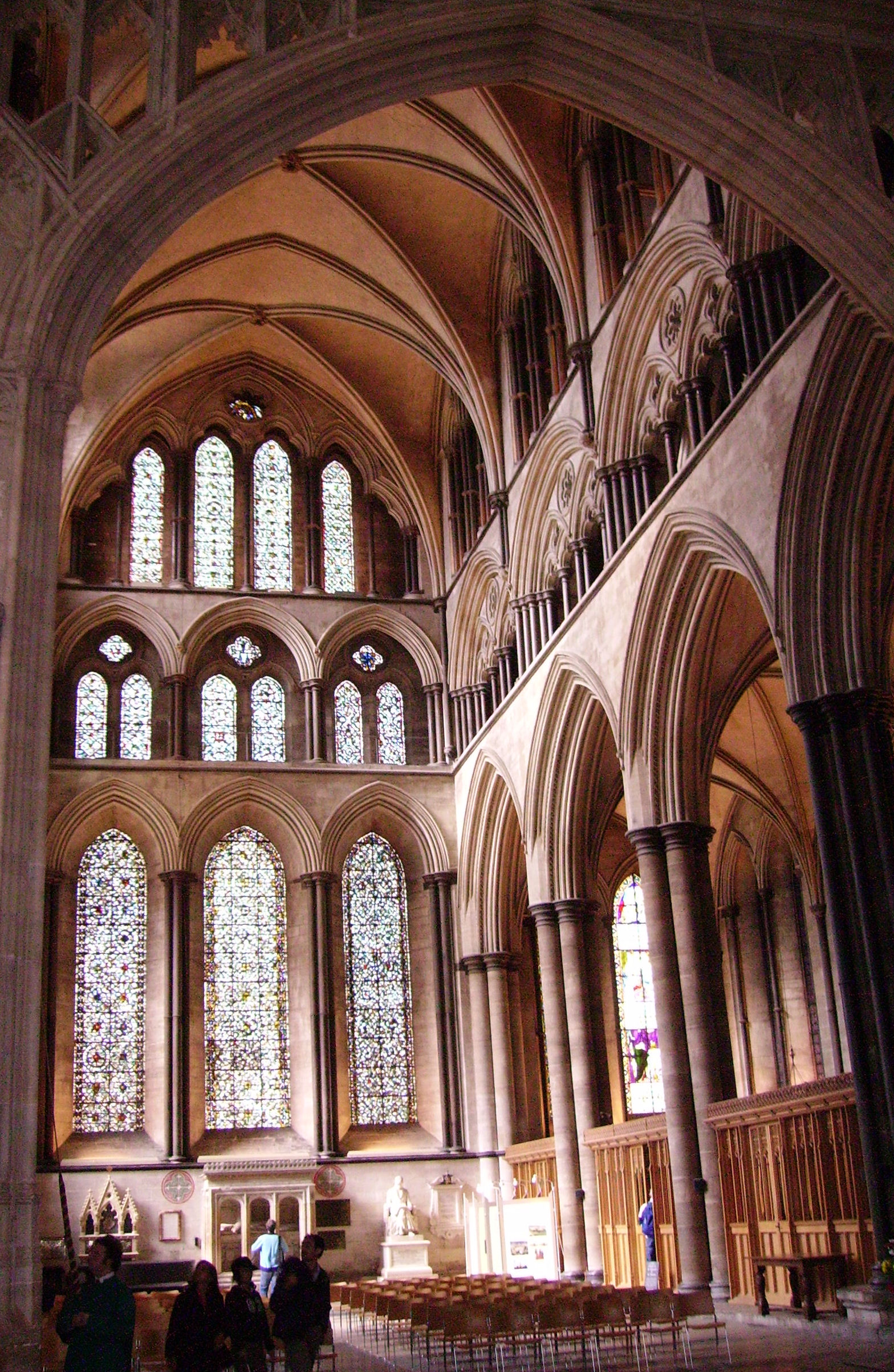 view of Salisbury Cathedral, United Kingdom